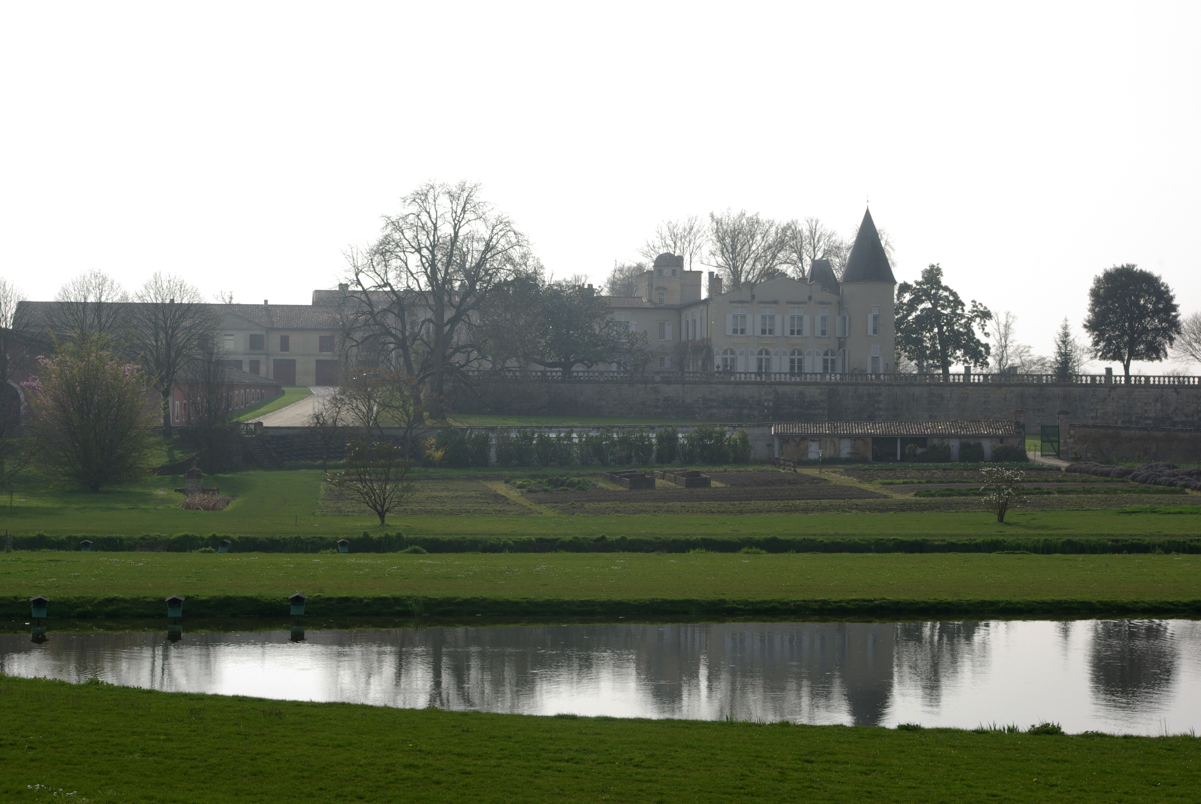 Château Lafite Rothschild in Pauillac (Gironde, France). National Heritage Site of France.